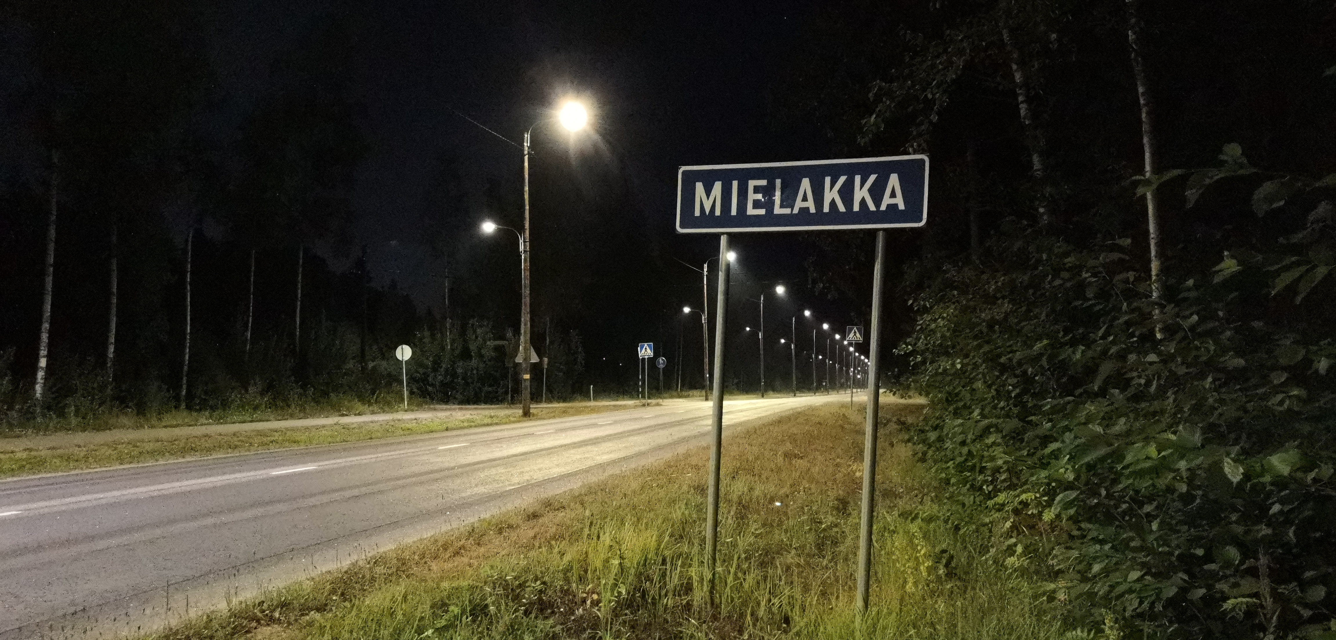 Mielakan kaupunginosan kyltti yöllä elokuussa 2019